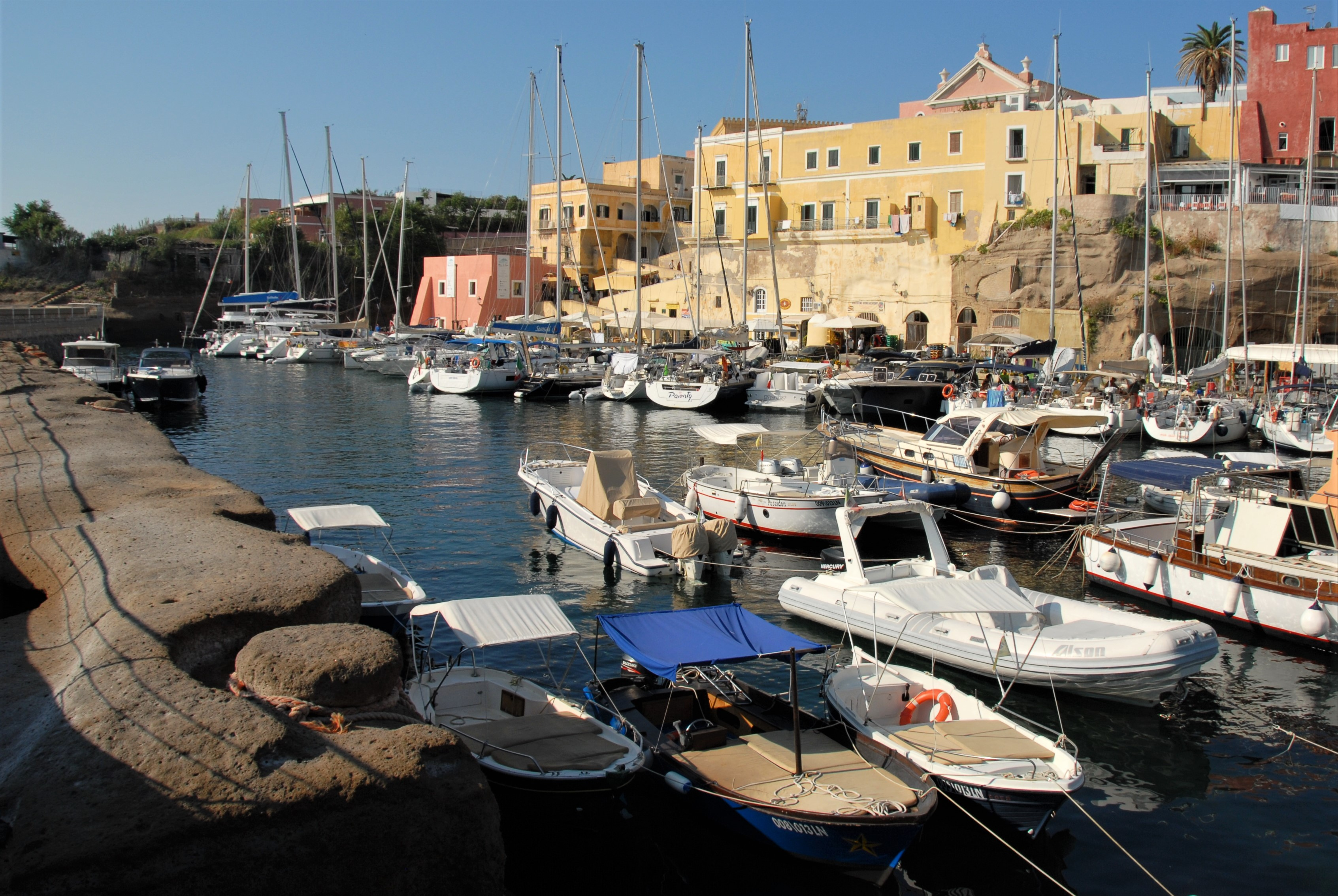 Porto Romano, on the Island of Ventotene, is the ancient Roman port dug out of the rock bed during the reign of Emperor Augustus around 60 BC. A 2000-year old mooring, still in use, on the left.